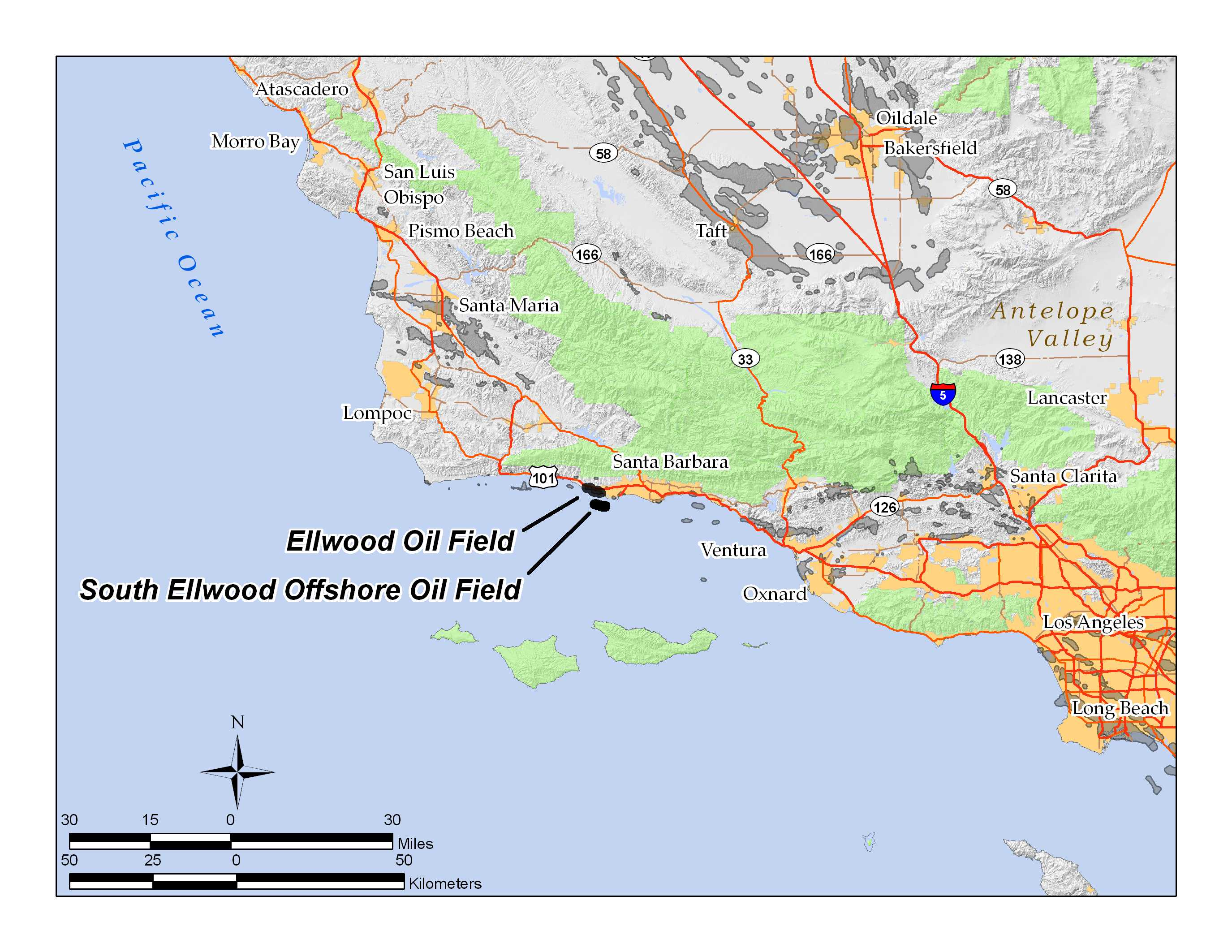 Map of Ellwood Oil Field and Offshore Oil Field, California, United States